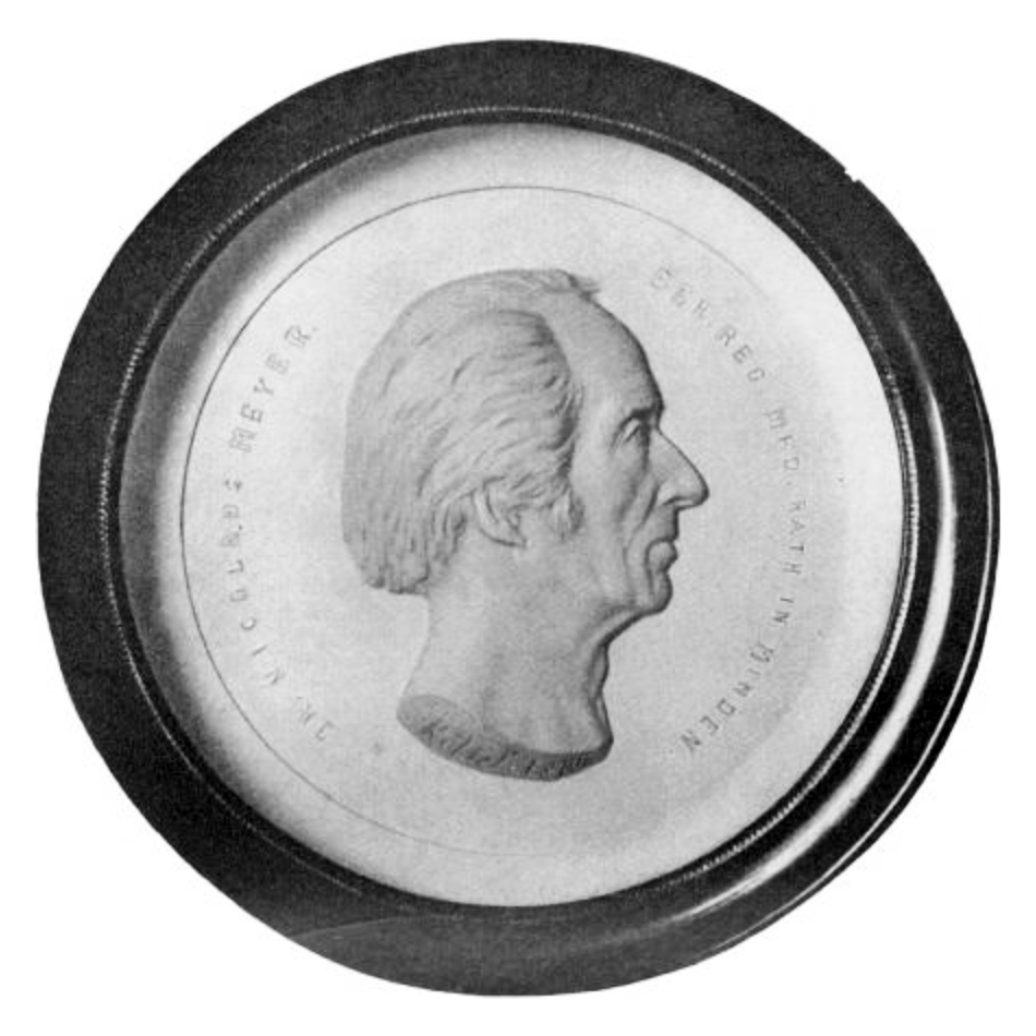 Portrait of Nikolaus Meyer (1775–1855), physician and writer from Bremen, Germany.